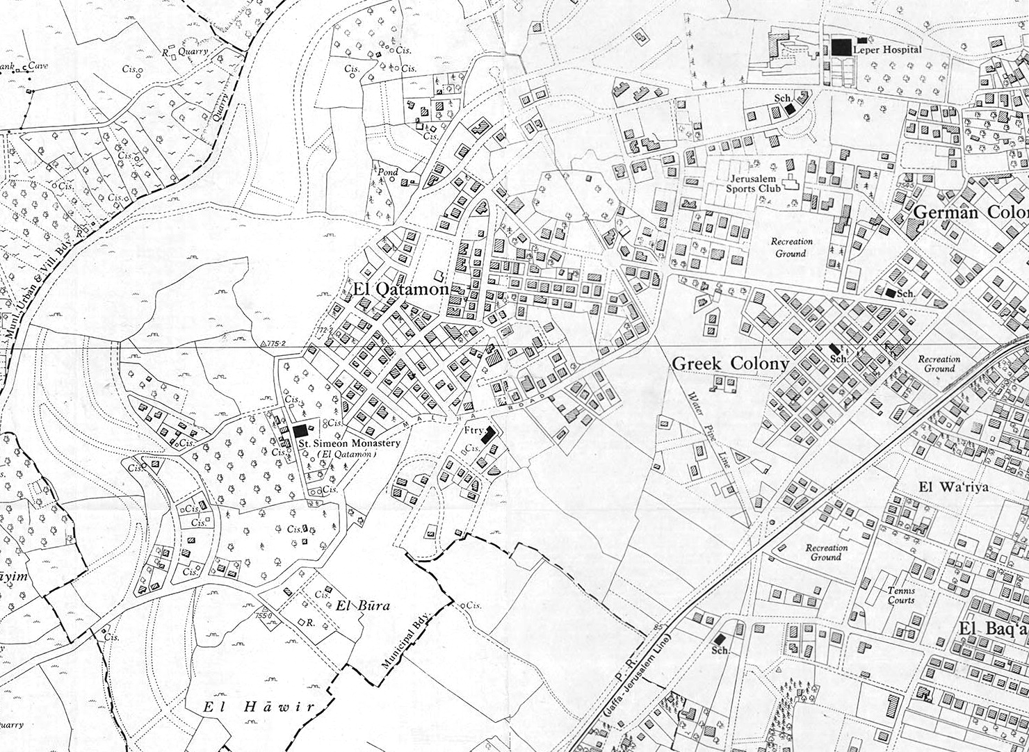 A detailed and accurate measurment map of Jerusalem, produced by the Survey of Palestine, 1945. Scale 1:5,000. Map was created as merger of this and this.